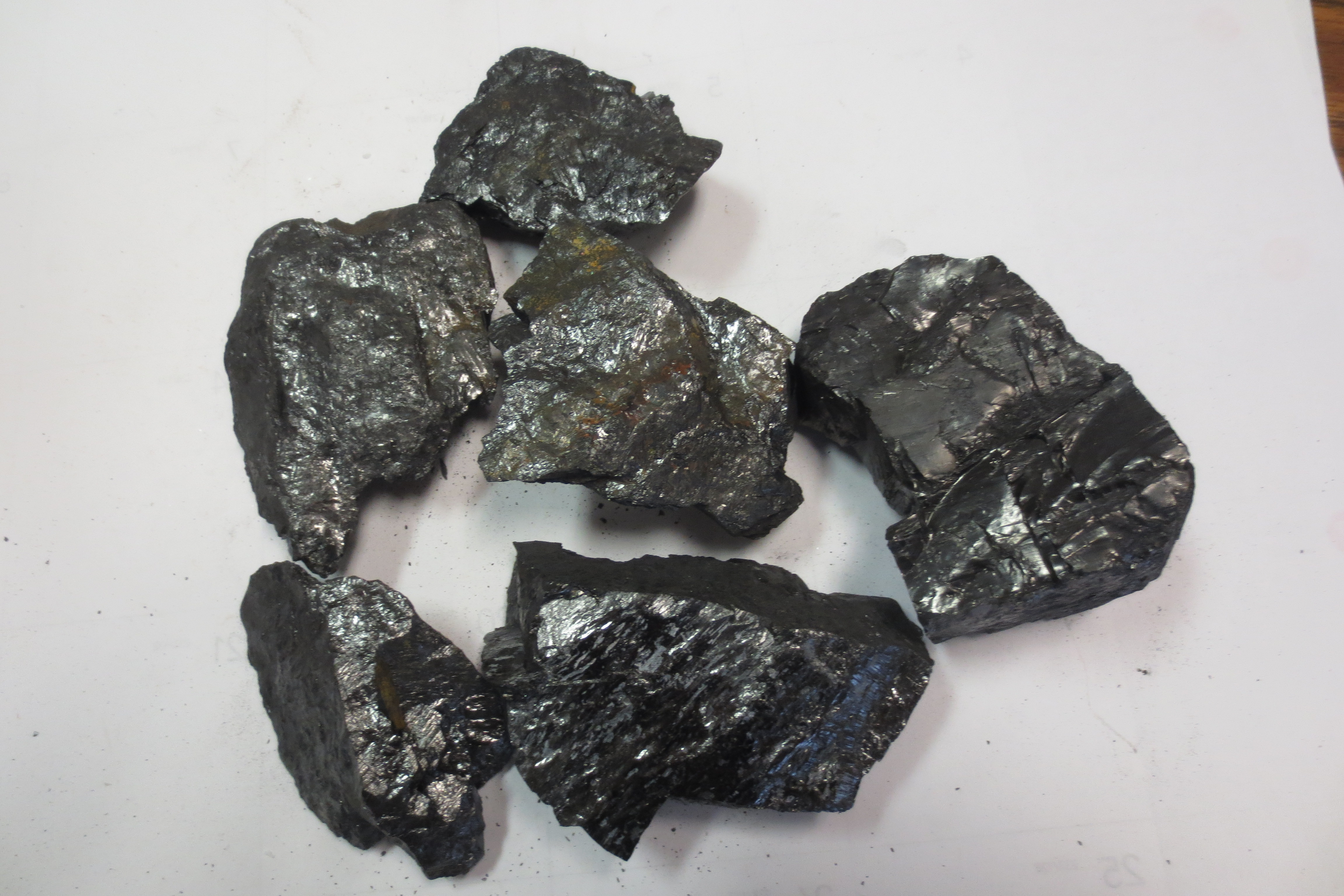 Coal Anthracite